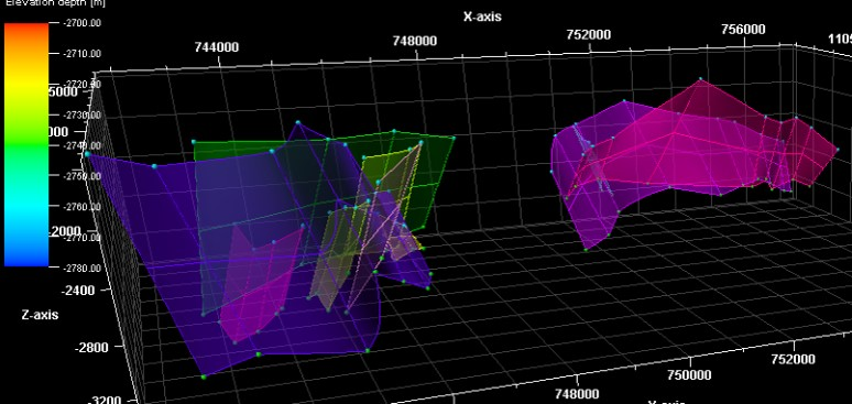 fault planes in geo model